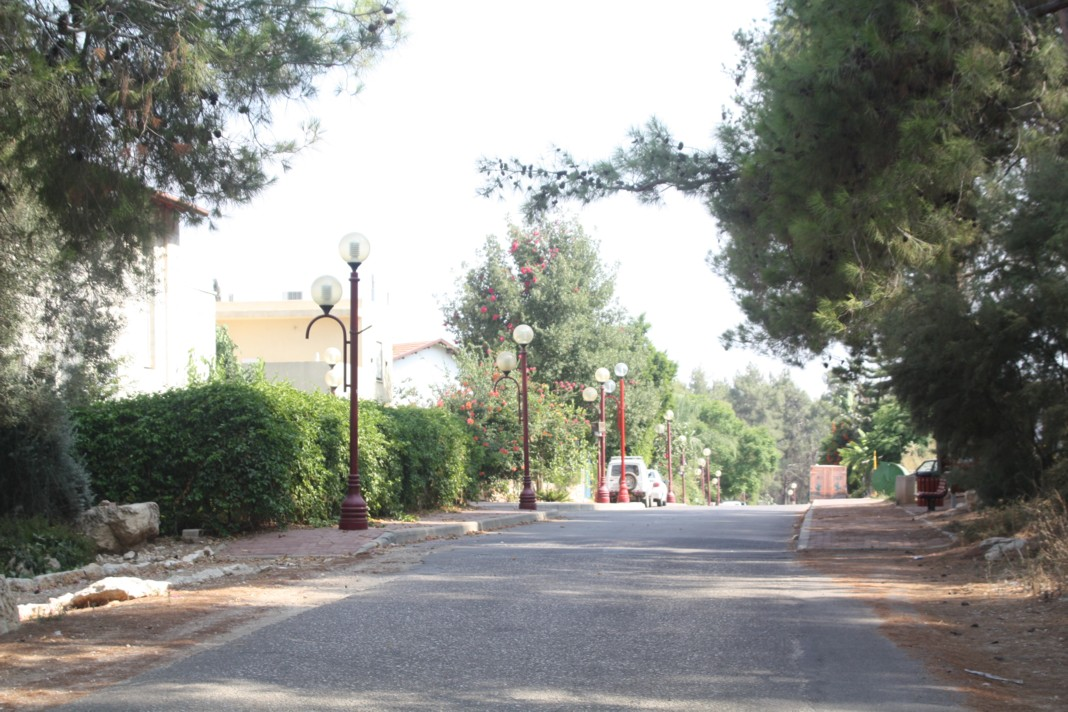 Gizo